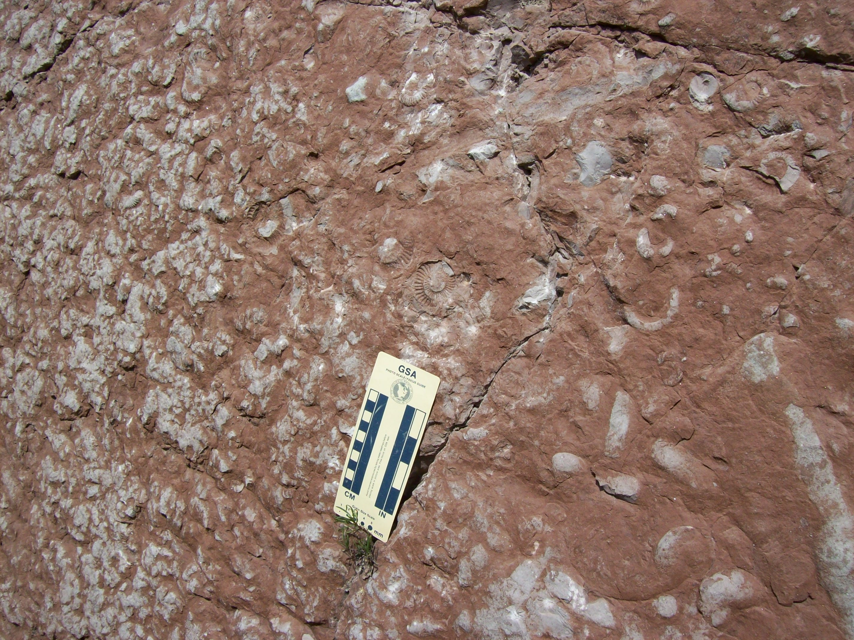 Ammonitico Rosso lithofacies from Early-Late Jurassic (Late Plienbachian) of northern Lombardy (Italy-Southern Calcareous Alps). Red-greenish limestones. Stratal surface with calcareous nodules and Ammonite remains.